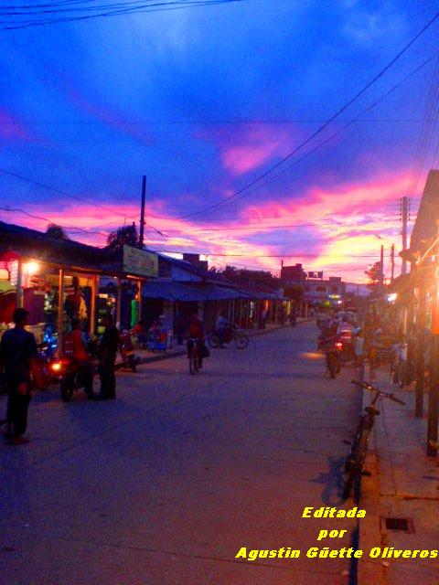 Atardecer en san pablo bolivar colombia